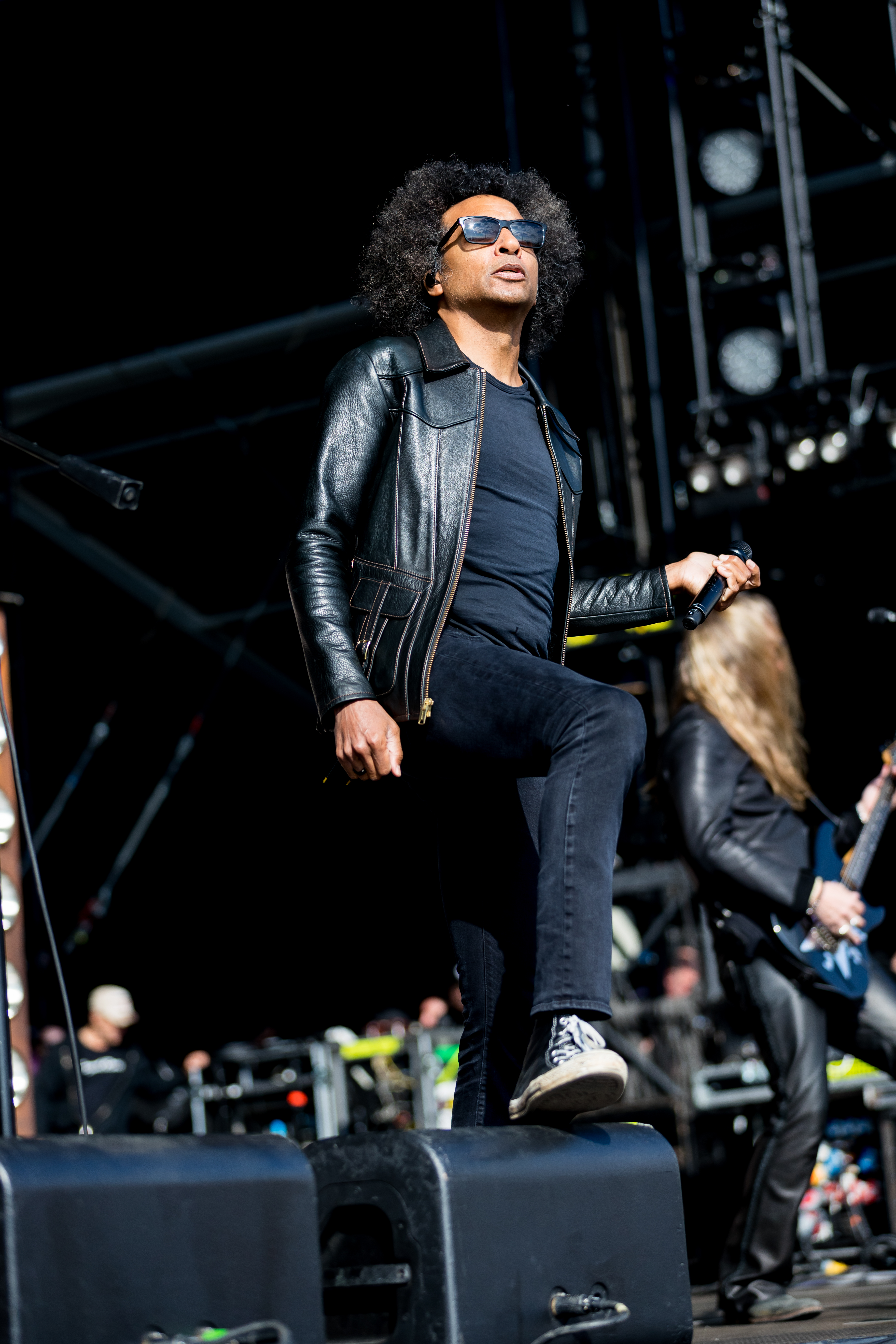 Alice in Chains during Rock am Ring ( at Nürburgring, Rheinland-Pfalz, Germany on 2019-06-07, Photo: Sven Mandel Promotion by Live Nation (